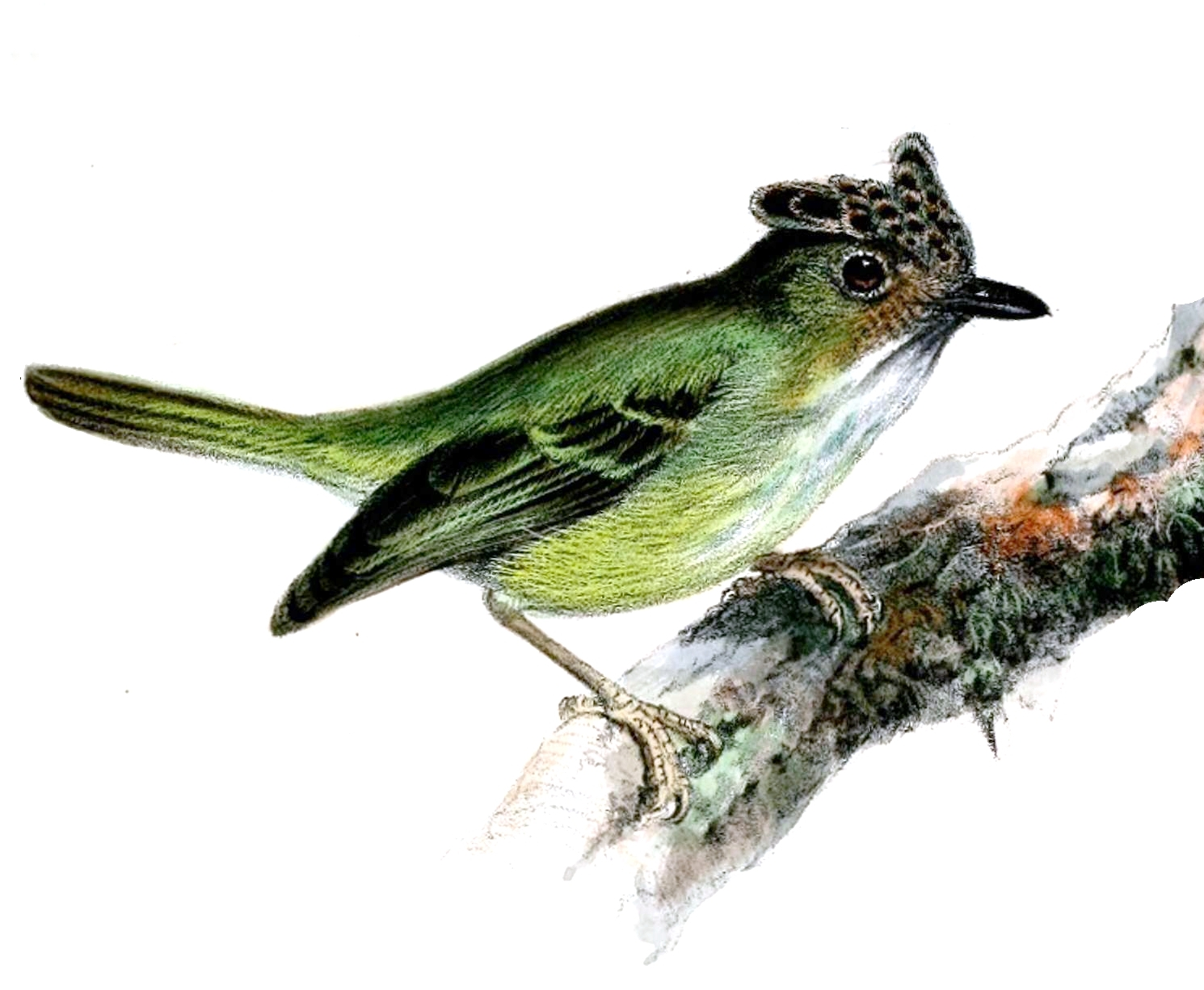 Double-banded Pygmy-tyrant (below)